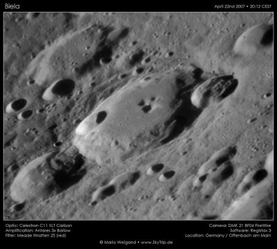 Biela crater